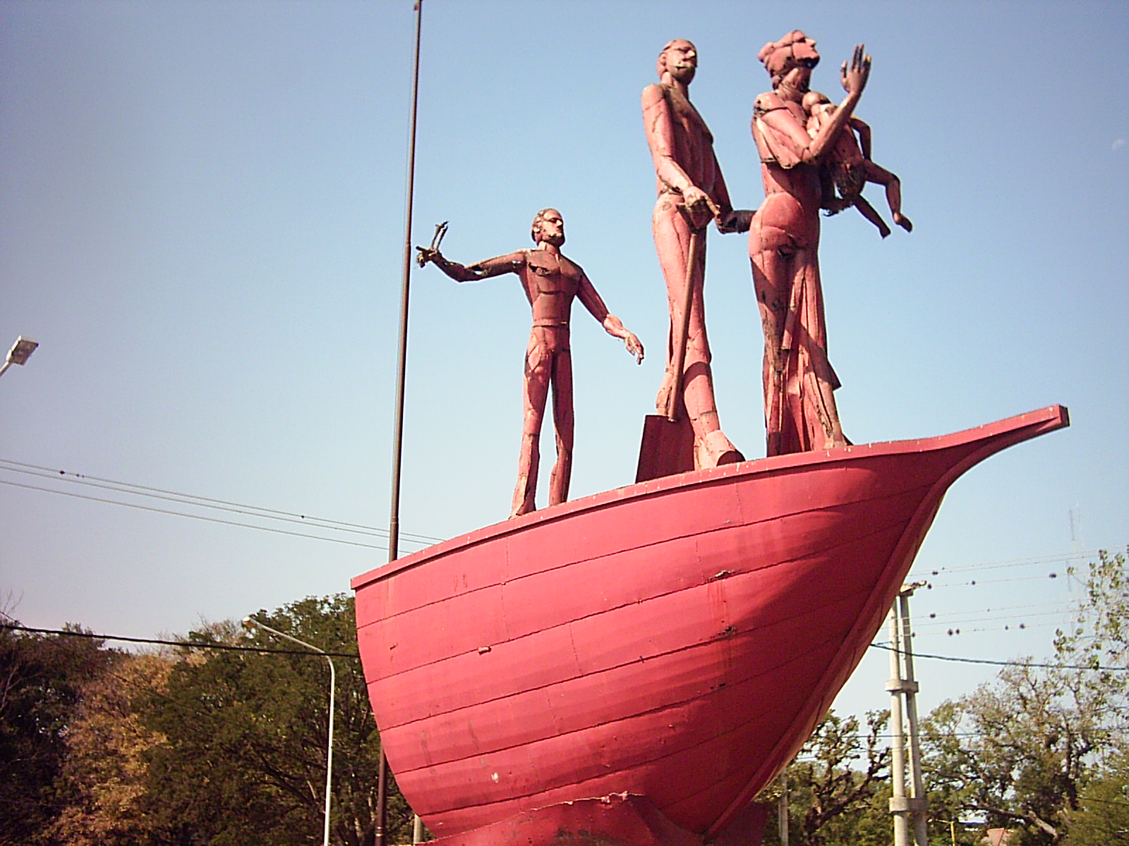 A sculpture symbolizing first inmigrants arrival to Resistencia, Chaco, Argentina.